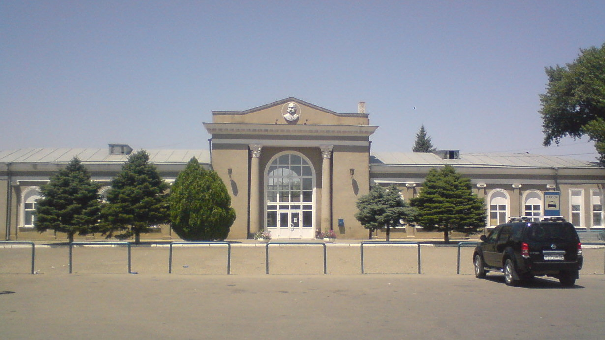 Train stations in Budyonnovsk. Stavropol Krai, Russia)